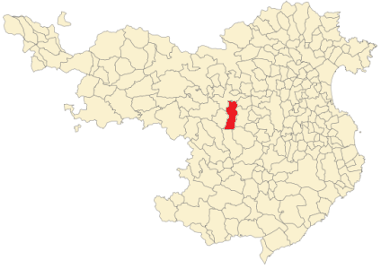 Sant Miquel de Campmajor